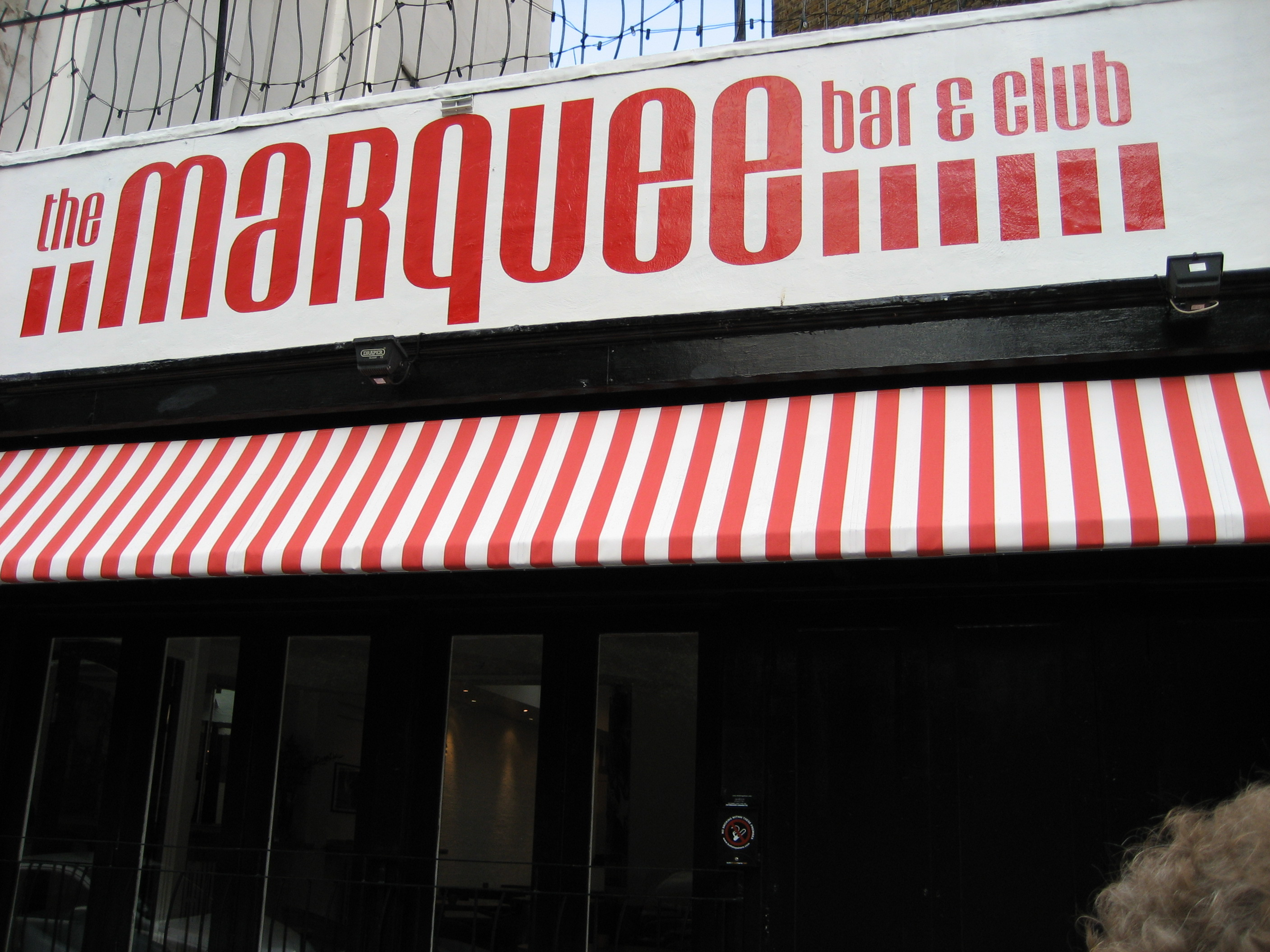 Marquee Club on Upper Saint Martins Lane in Covent Garden in London in August 2007